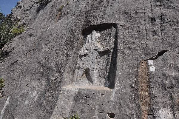 King Tarkasnawa of Mira circa 1350 BCE